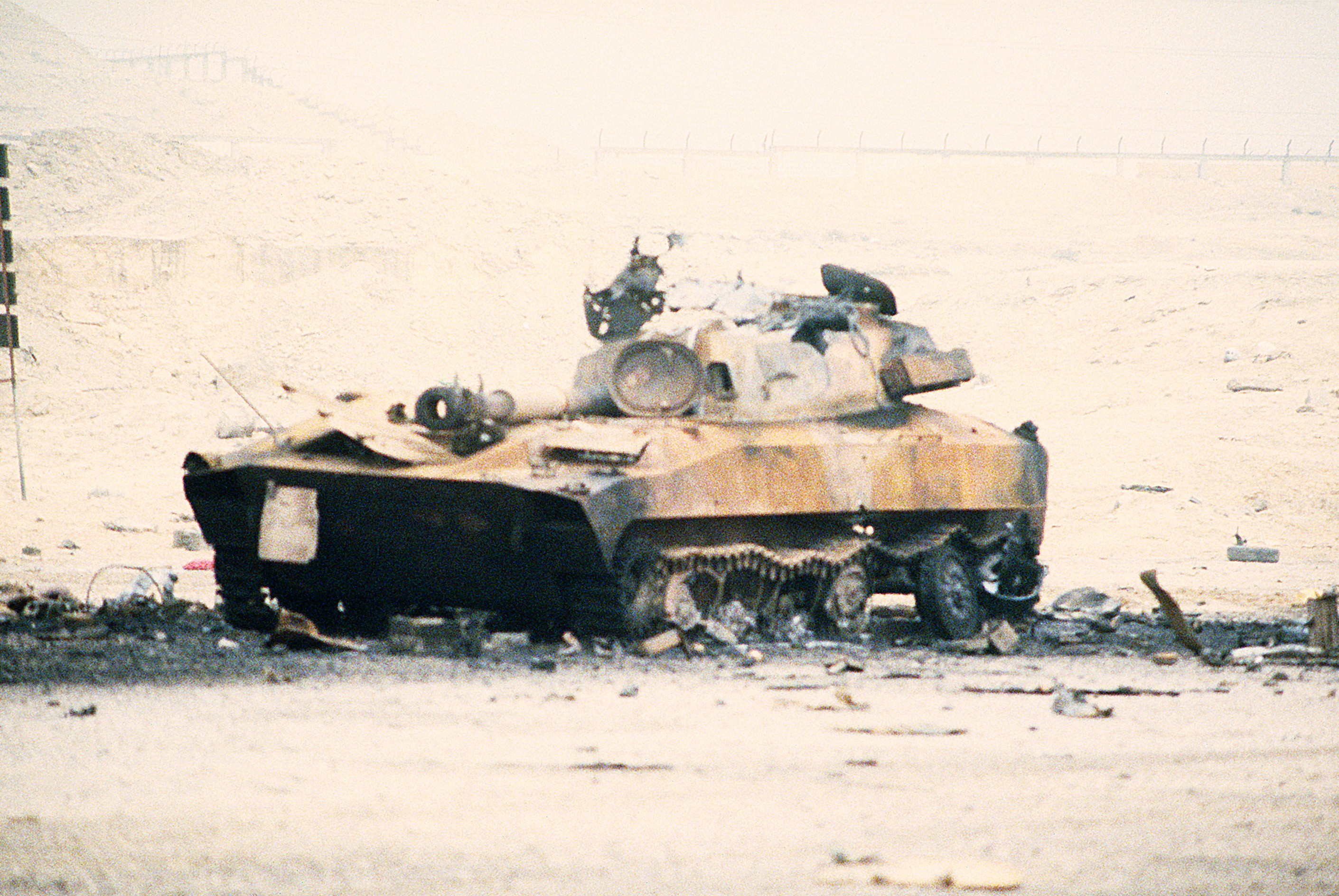 An Iraqi M-1974 (2S1) self-propelled 122mm howitzer sits alongside a road after being destroyed during Operation Desert Storm.